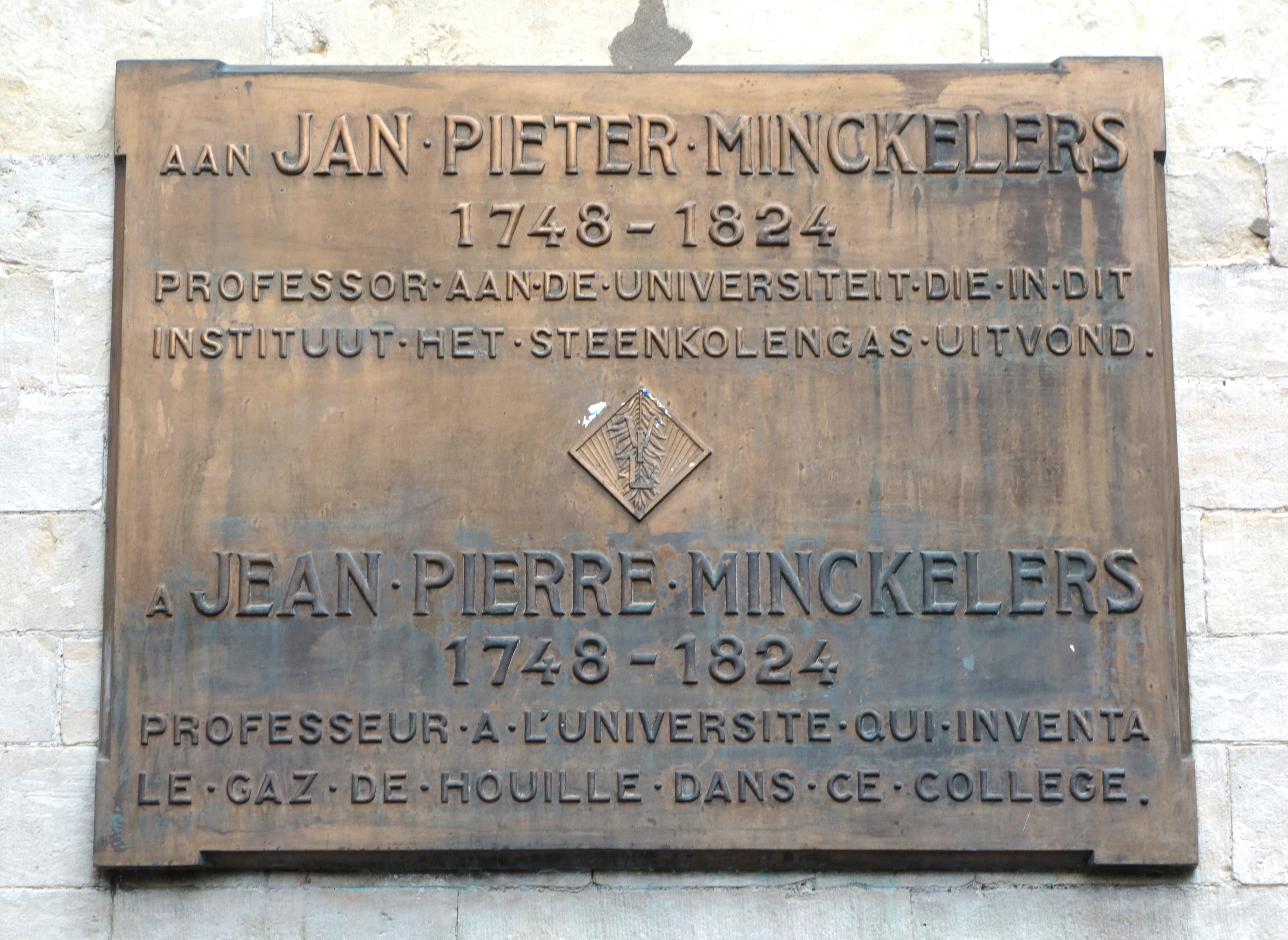 Jean-Pierre Minckelers plaque - Leuven, Belgium. This plaque is old enough so that it is in the public domain.